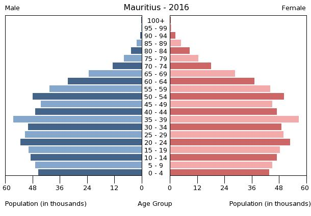 The population pyramid of Mauritius illustrates the age and sex structure of population and may provide insights about political and social stability, as well as economic development. The population is distributed along the horizontal axis, with males shown on the left and females on the right. The male and female populations are broken down into 5-year age groups represented as horizontal bars along the vertical axis, with the youngest age groups at the bottom and the oldest at the top. The shape of the population pyramid gradually evolves over time based on fertility, mortality, and international migration trends.